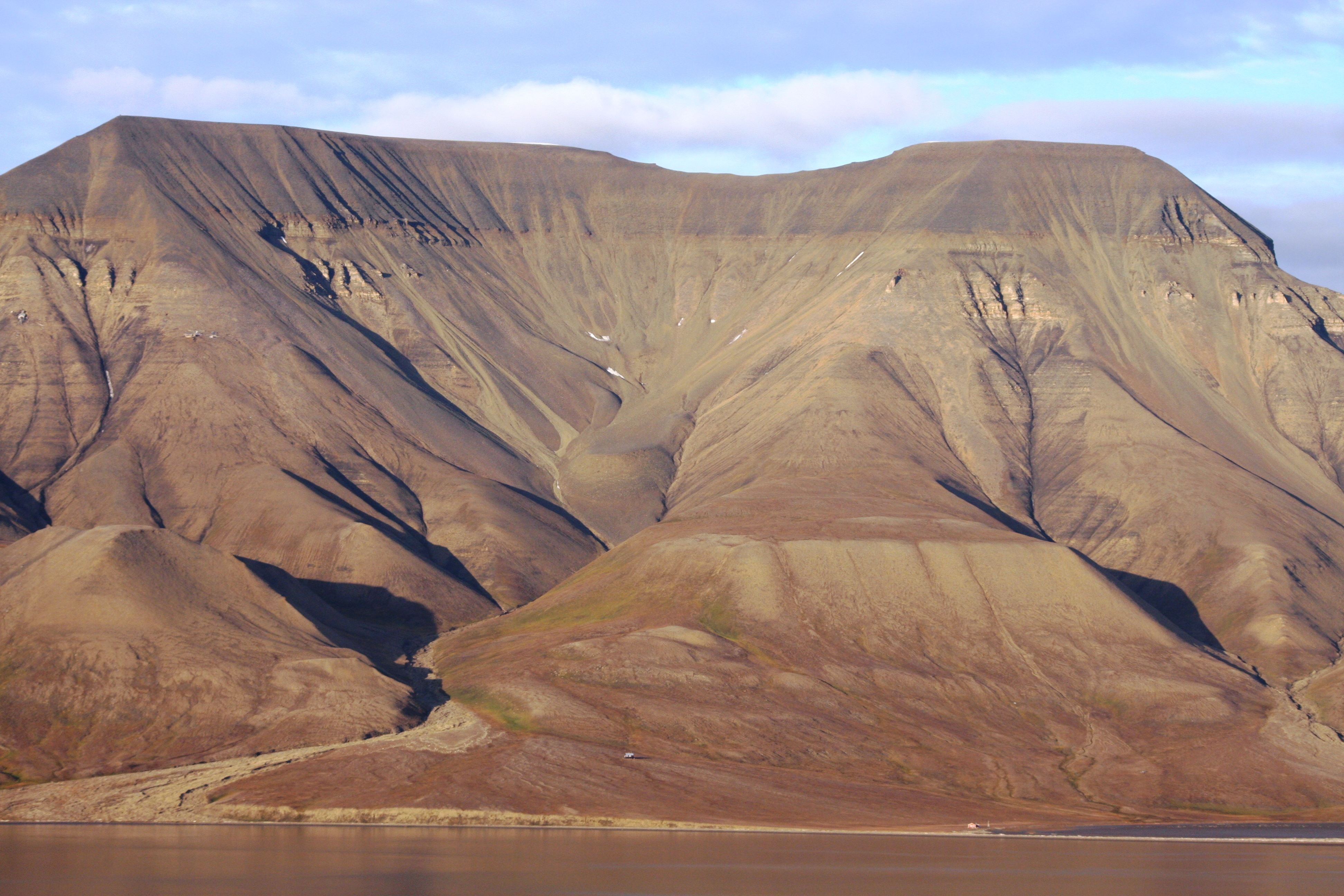 Mountain in Adventdalen near Longyearbyen, Nordenskiöld Land (Svalbard)